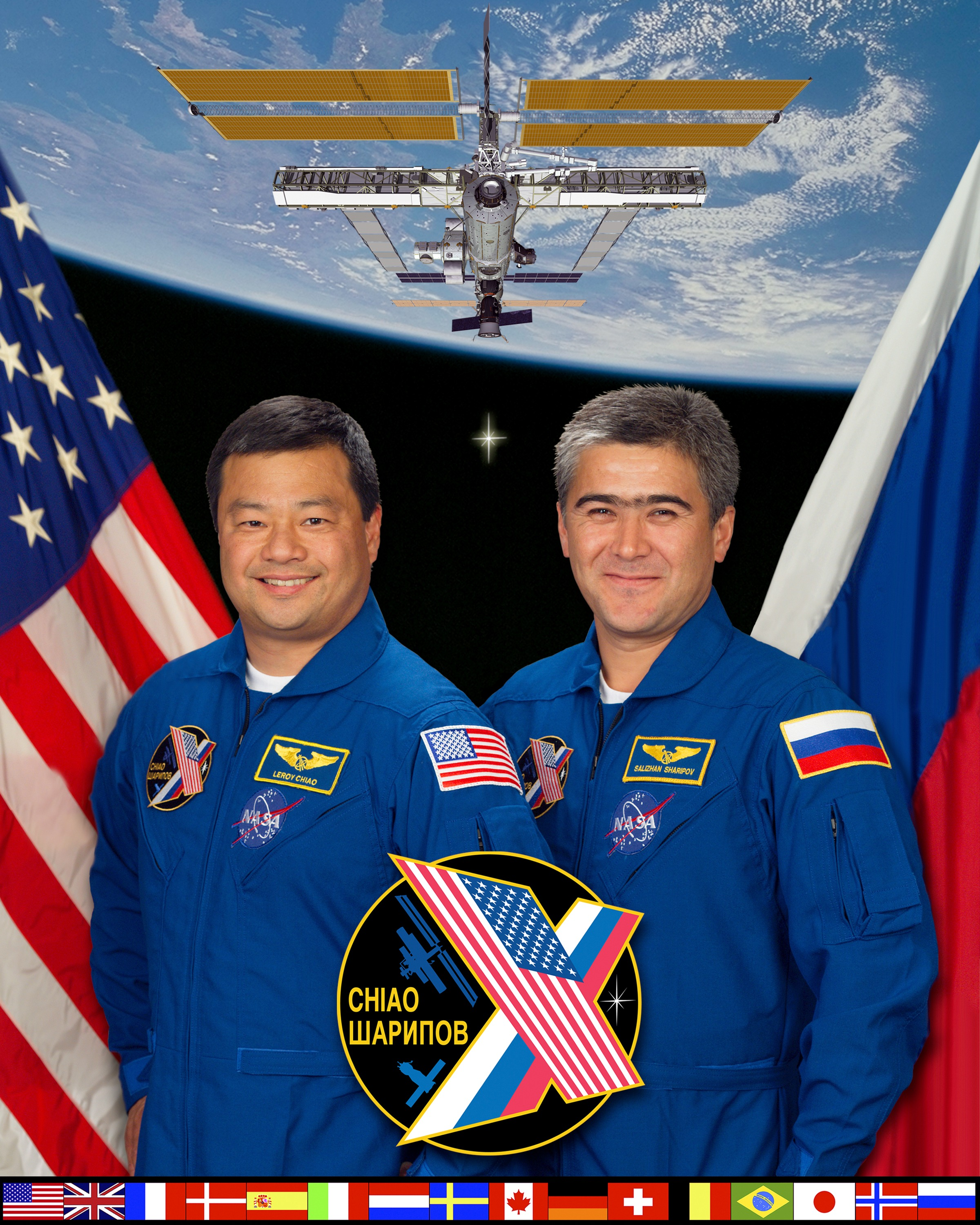 The crewmembers for Expedition 10 take a break from training in the United States, Russia and other venues to pose for their crew portrait. Astronaut Leroy Chiao, left, is commander and NASA ISS science officer. Cosmonaut Salizhan S. Sharipov, representing Russia’s Federal Space Agency, is flight engineer.